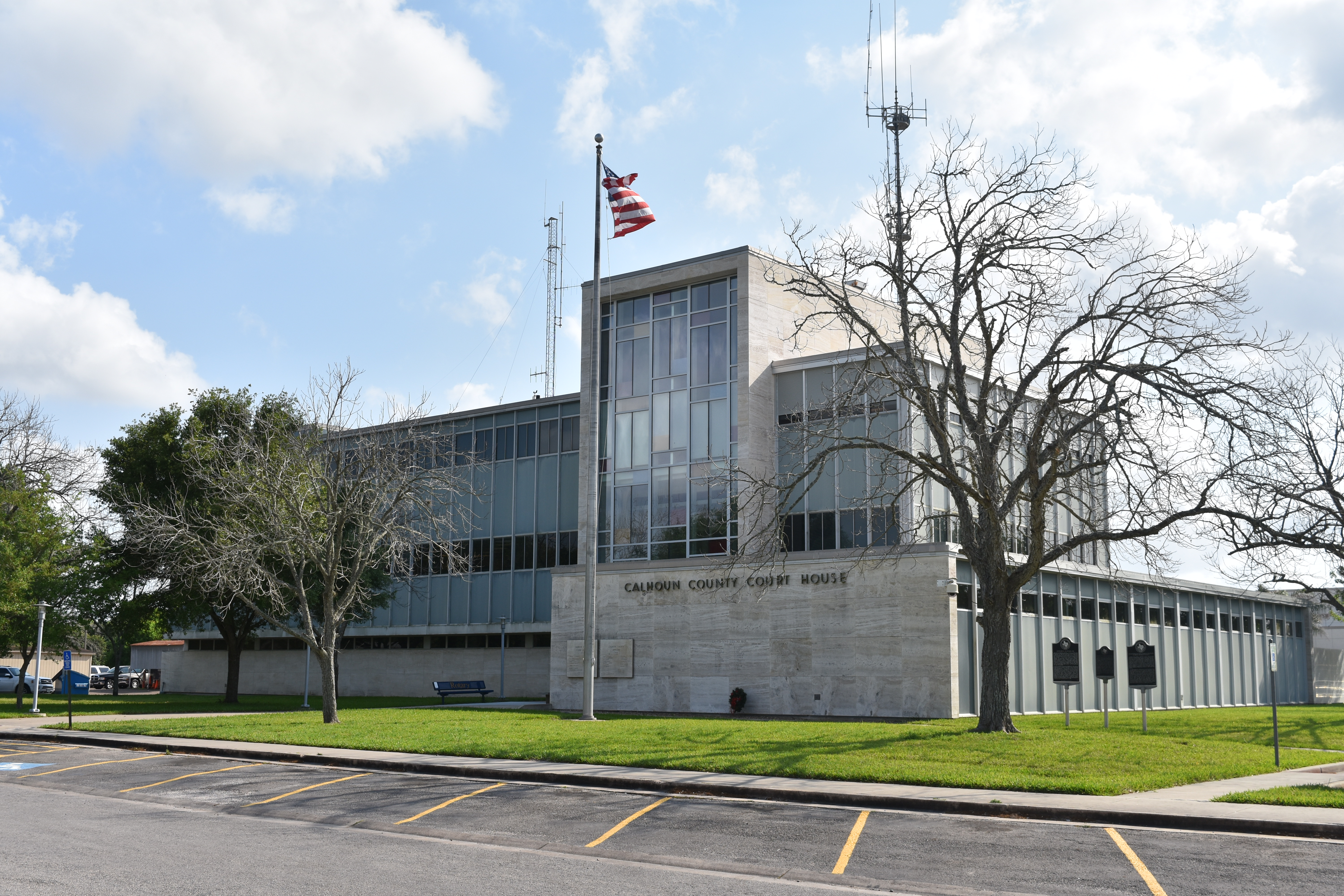 Calhoun County Courthouse, Port Lavaca, Texas, USA